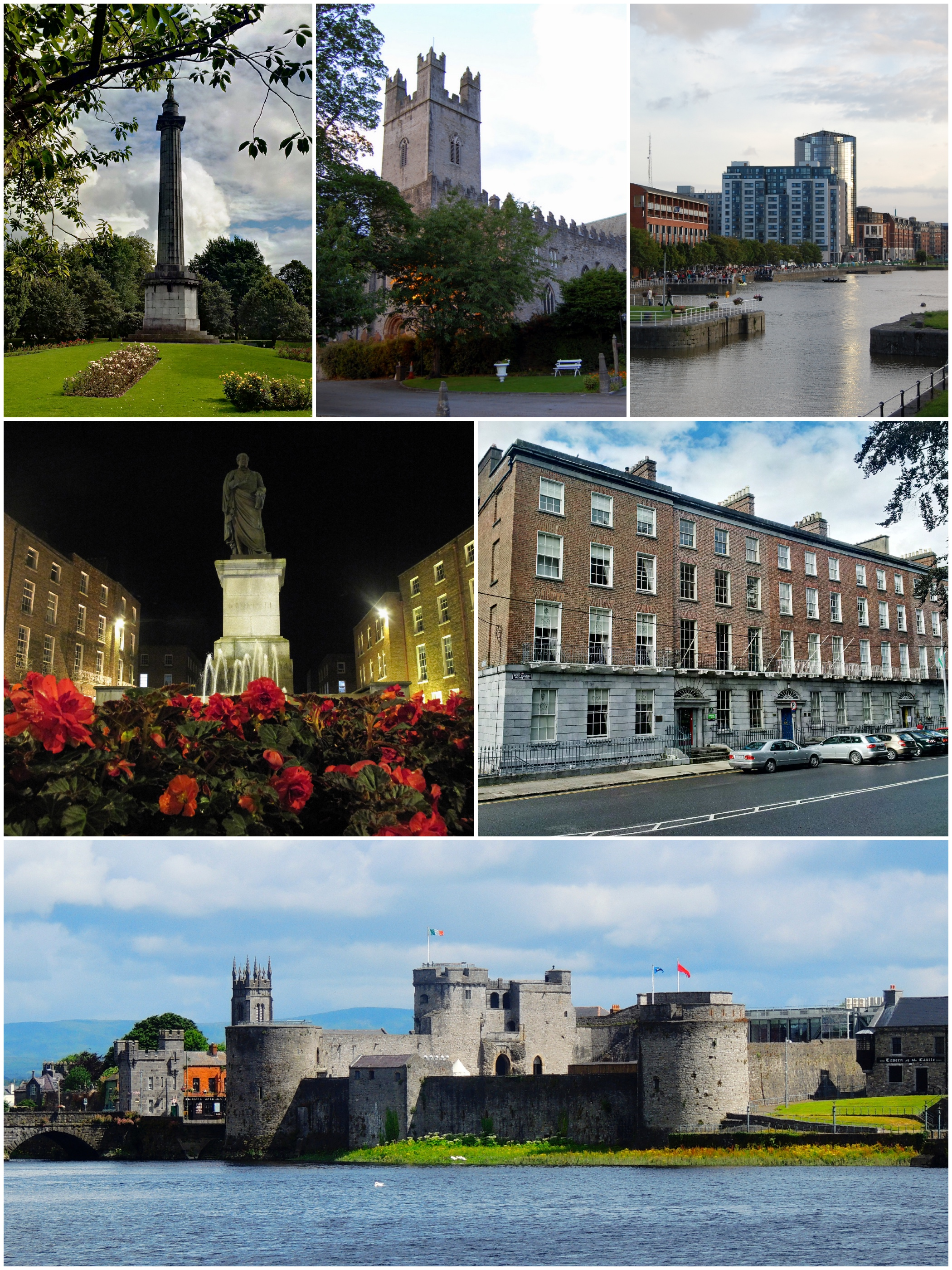 Collage of Limerick City, Ireland